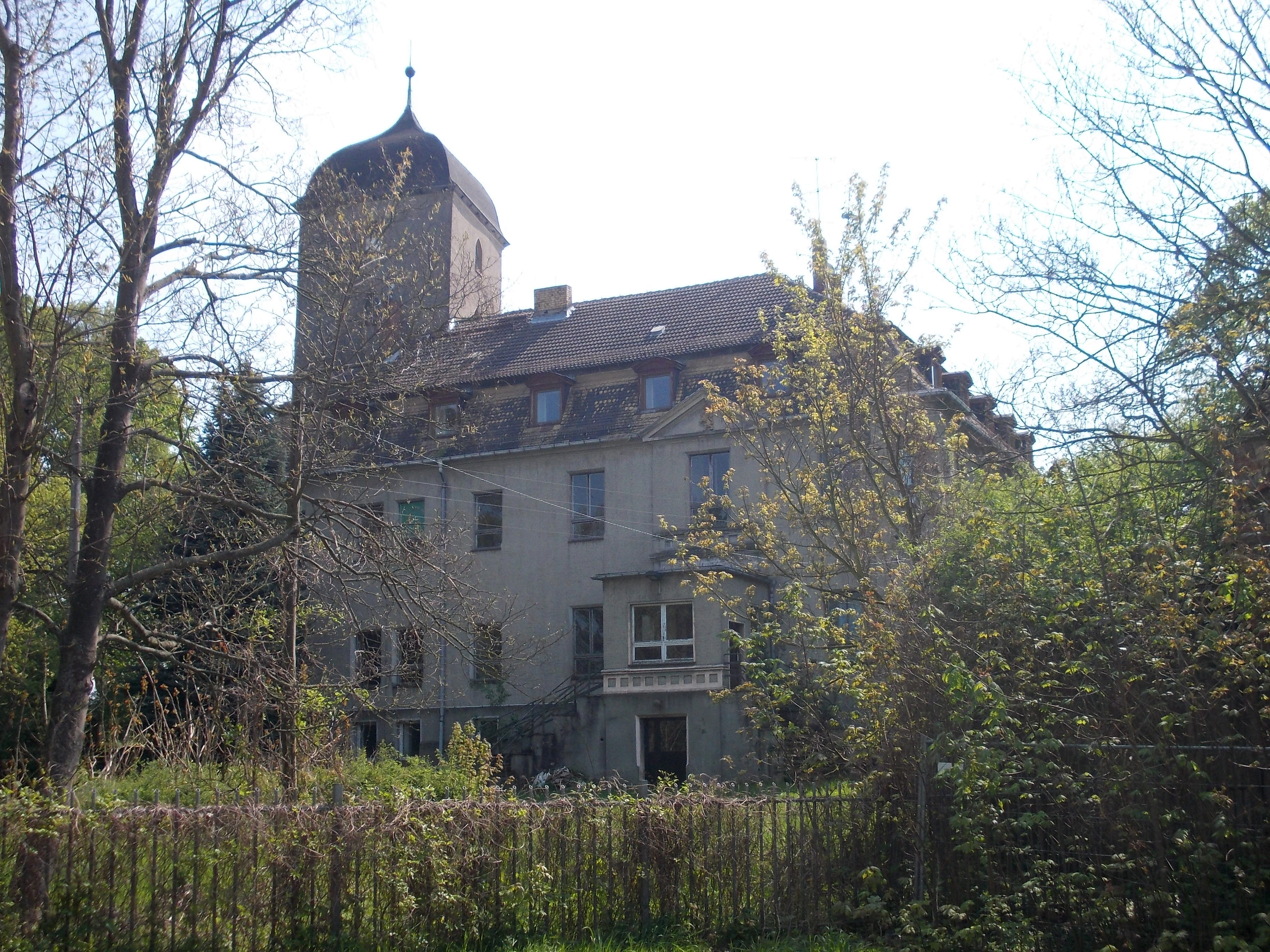 The castle in Pouch (Muldestausee, Anhalt-Bitterfeld district, Saxony-Anhalt)